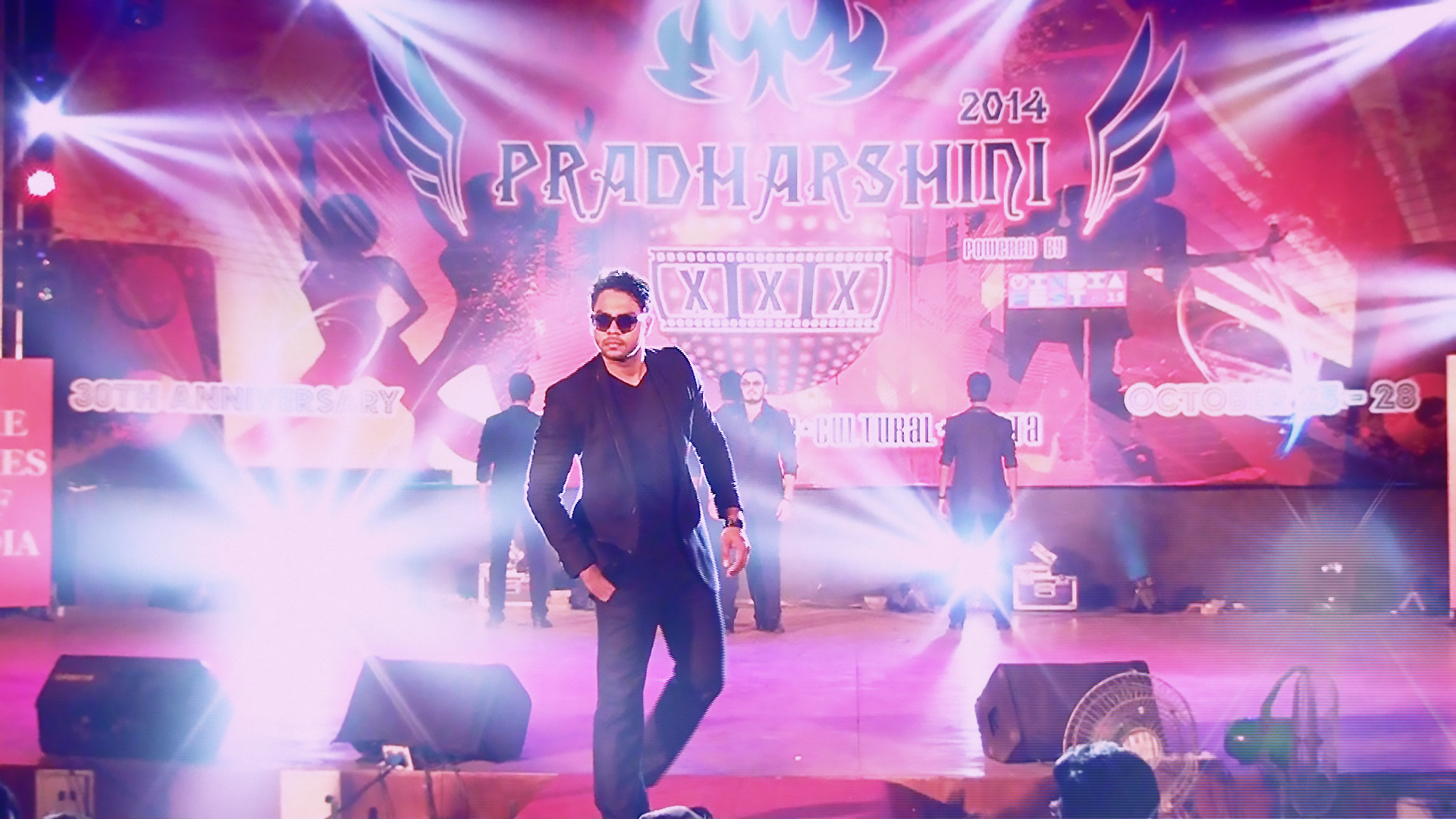 Fashion at Pradharshini 2014